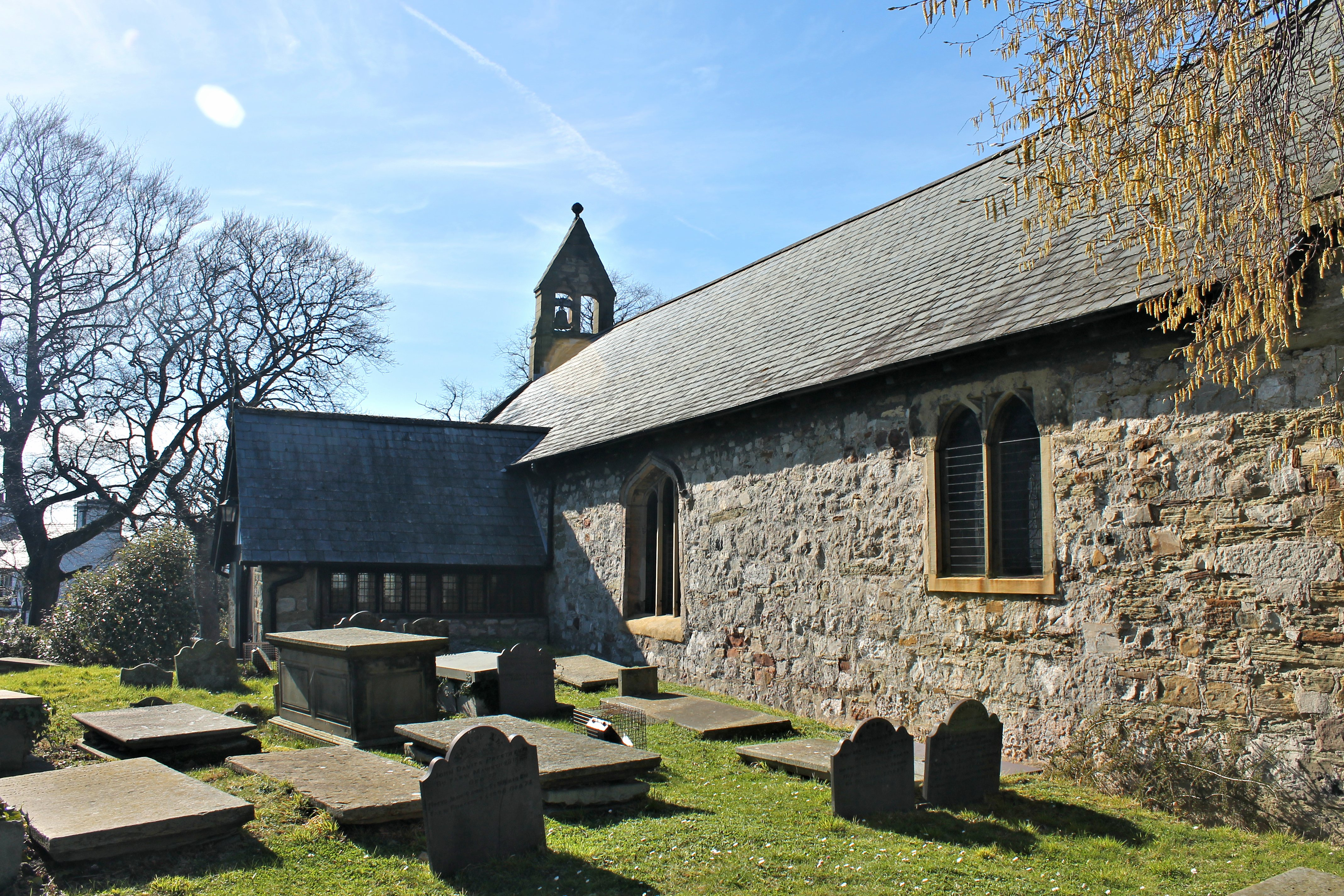 The Church of St Melyd's, Meliden, Denbighshire, North Wales.